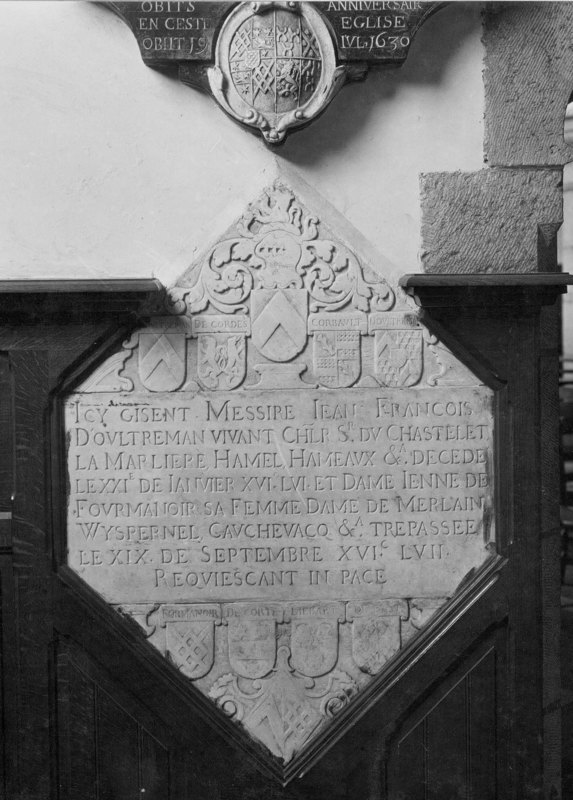 Jean François D'OULTREMAN